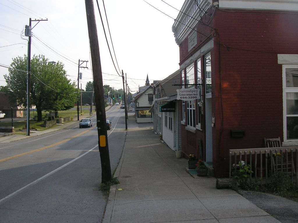 Downtown Alexandria, Kentucky, USA